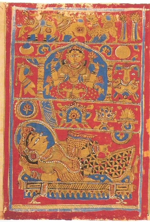 Queen Trishla, Mahaviras mother has 14 auspicious dreams. Folio 4 from Kalpasutra series, loose leaf manuscript, Patan, Gujarat. c. 1472.